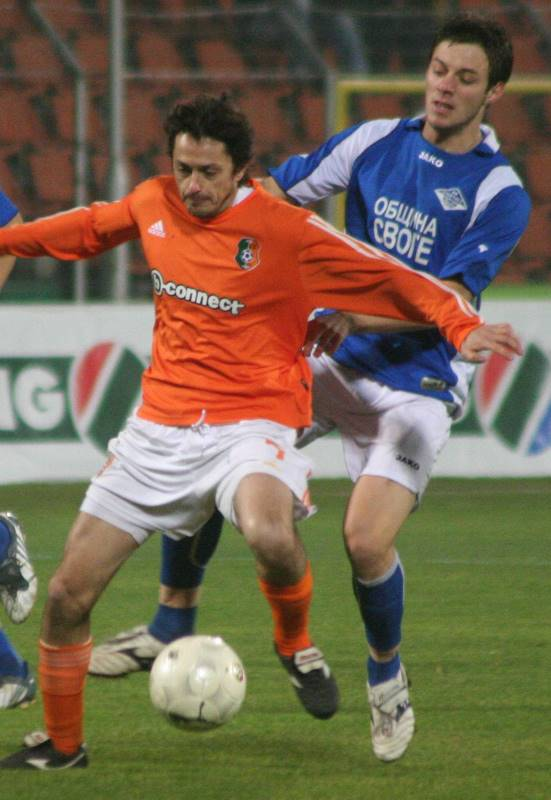 Nikolay Tsvetkov and Hristo Yanev